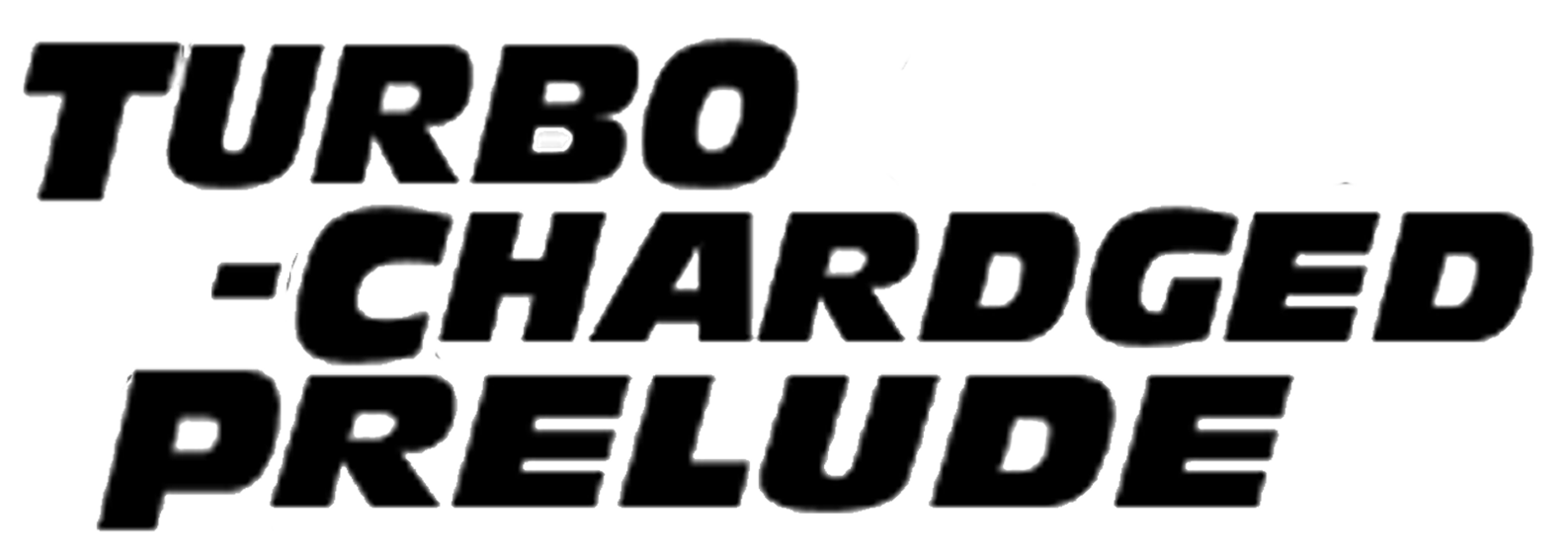 Turbo Charged Prelude